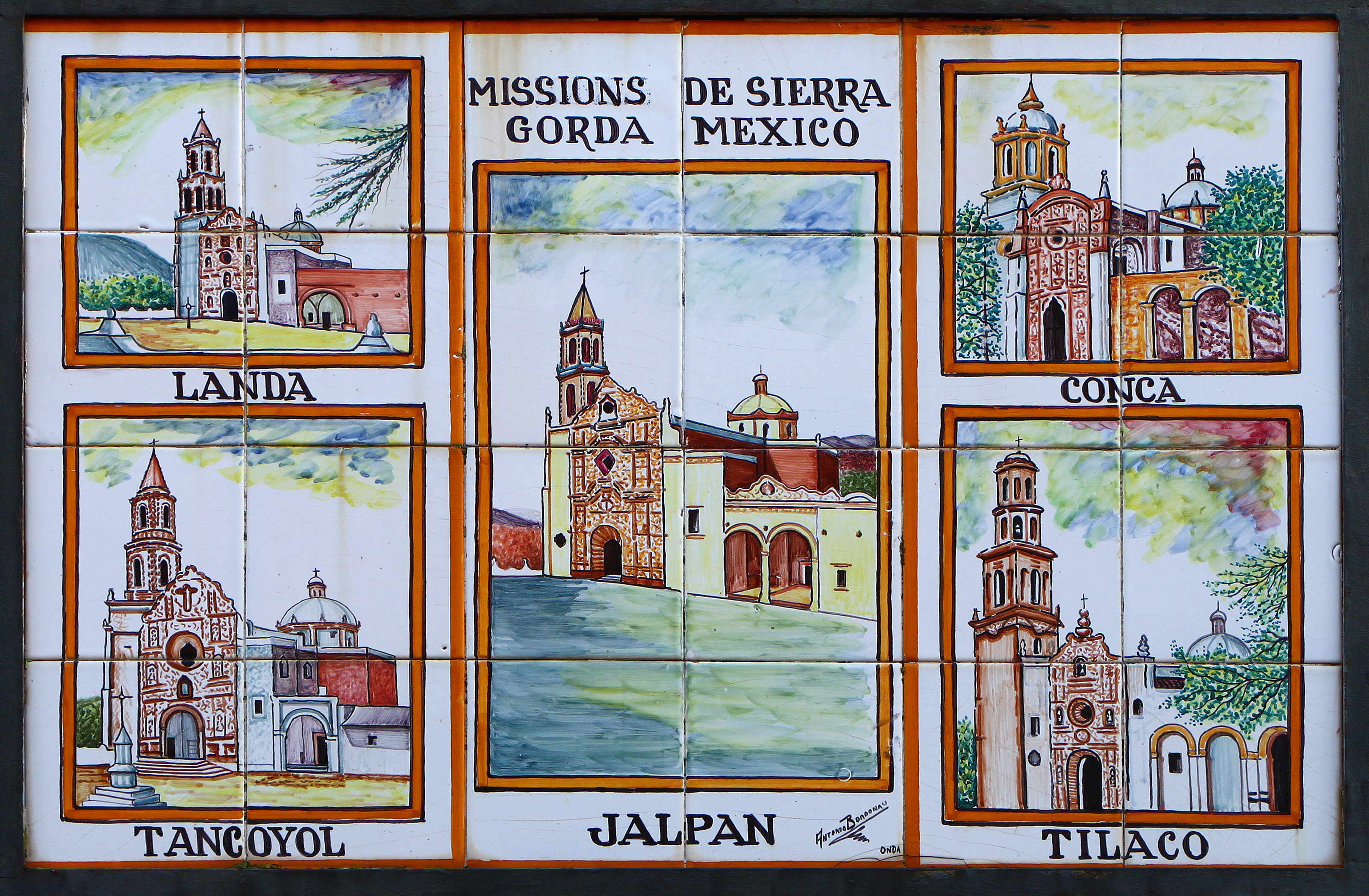 Picture of painted tiles to commemorate the founding of the Missions in Sierra Gorda, Mexico, by Junípero Serra; Petra, Majorca.